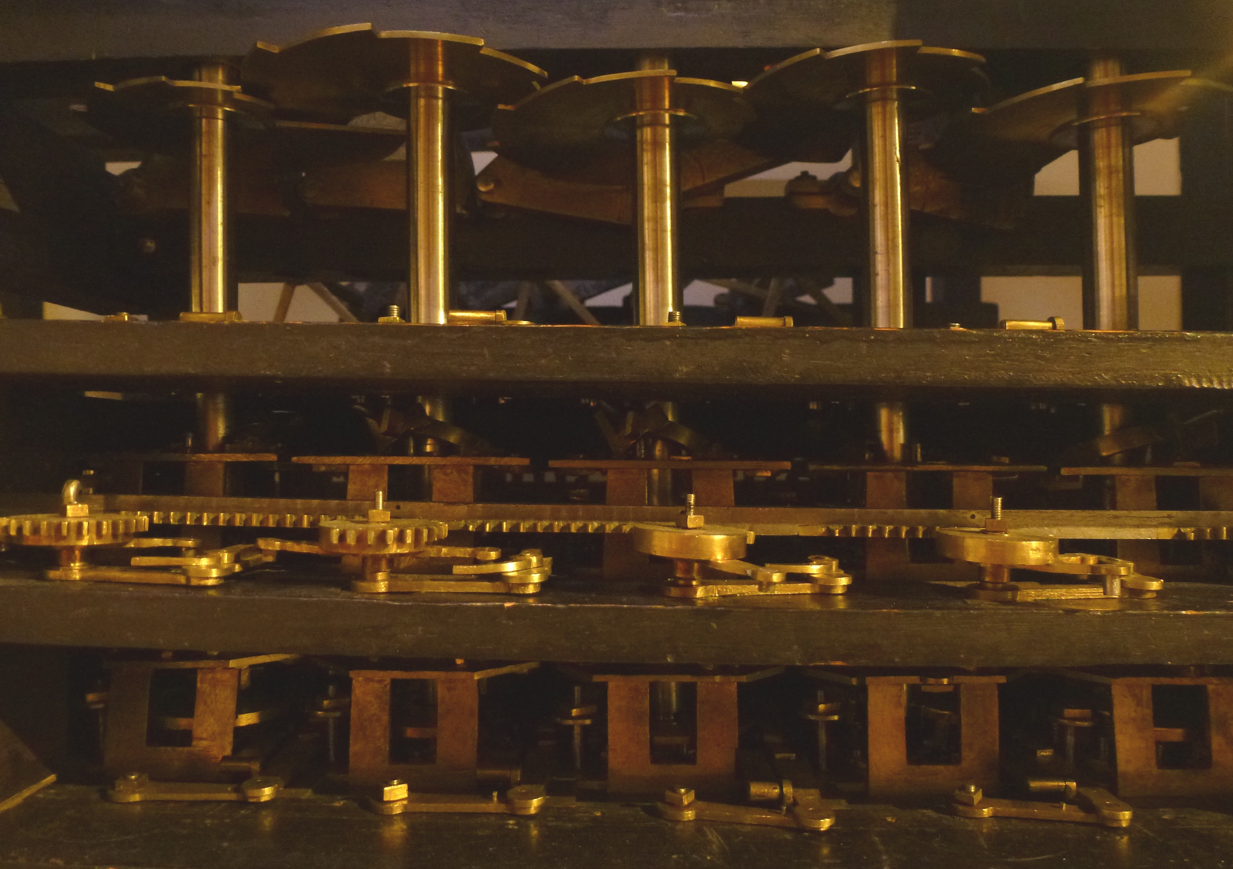 Scheutz Difference engine, detail